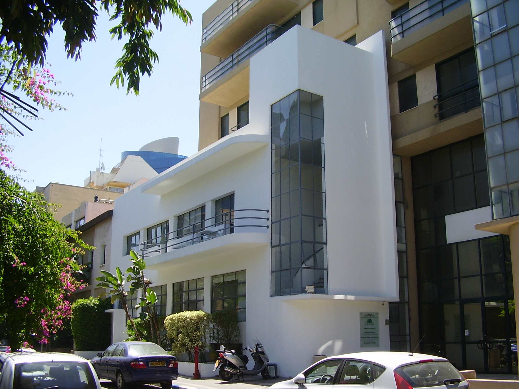 the former ha\'aretz building in tel-aviv